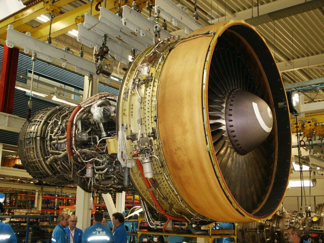 A CF6 turbofan engine at the KLM engine shop on Schiphol airport.